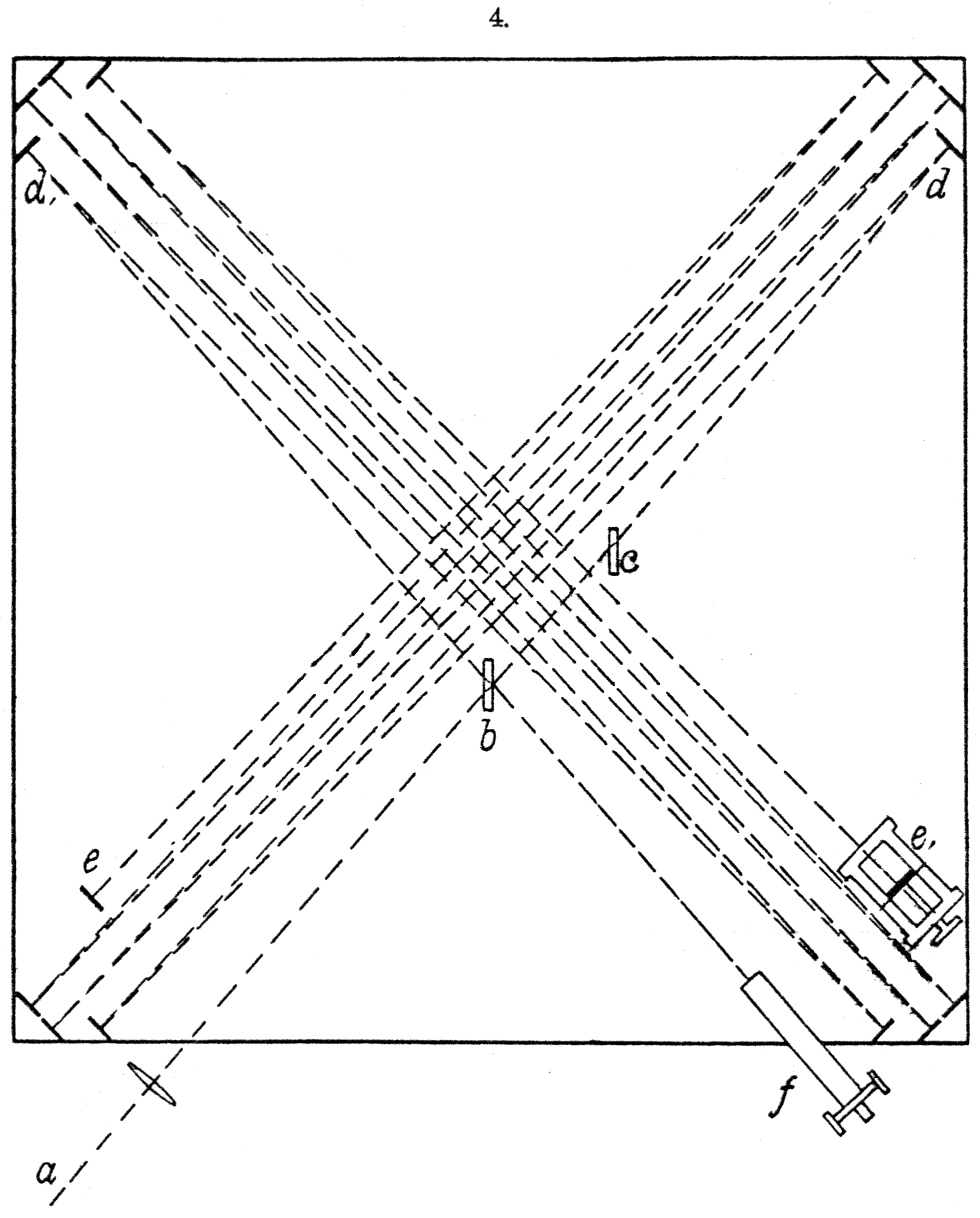 Fig. 4 from "On the Relative Motion of the Earth and the Luminiferous Ether".